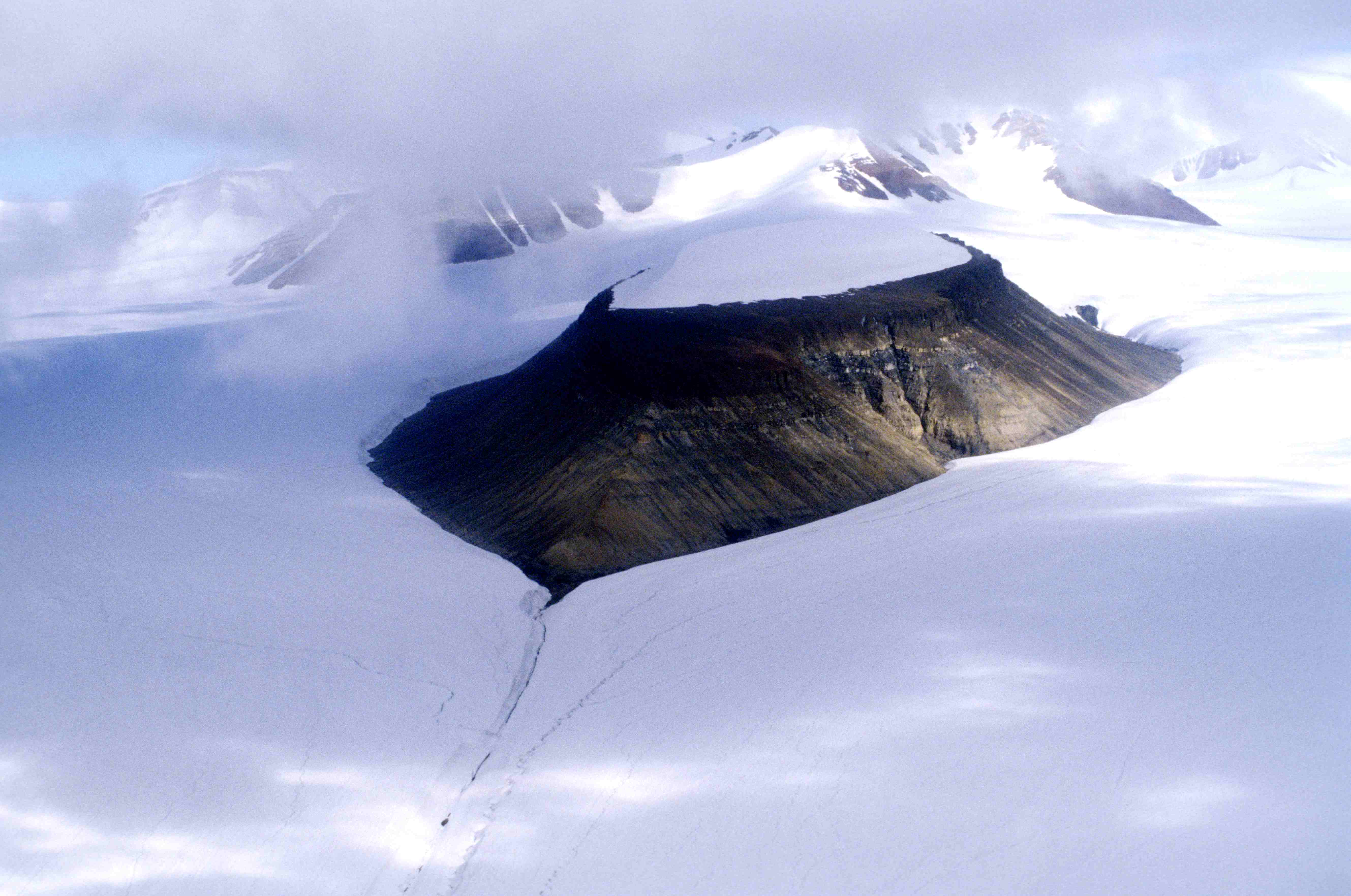 Ice Cap of British Empire Range; Quttinirpaaq National Park, Nunavut, Canada